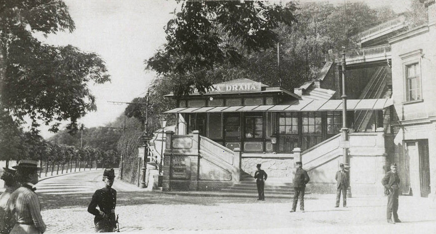 Lower station of the Letná Funicular